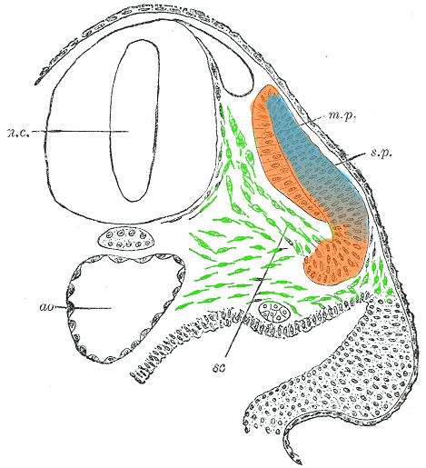 Transverse section of a human embryo of the third week to show the differentiation of the primitive segment. (Kollmann.) ao. Aorta. m.p. Muscle-plate. n.c. Neural canal. sc. Sclerotome. s.p. cutis-plate.